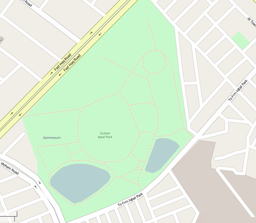 Map of Gulshan-e-Iqbal Park, Allama Iqbal Town, Lahore